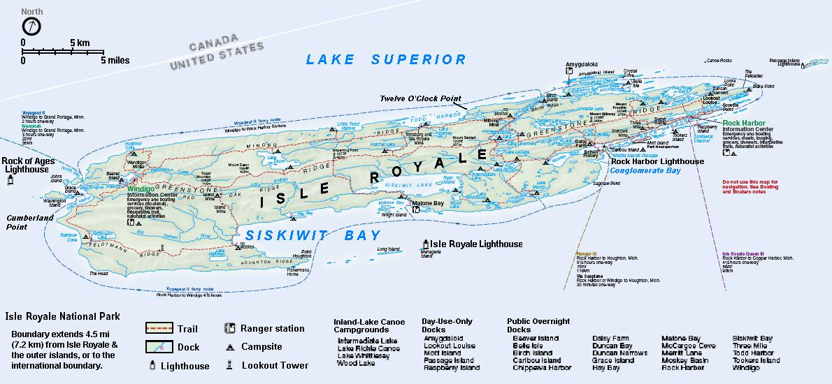 Map of Isle Royale National Park on Isle Royale in Lake Superior (Michigan, USA). The map includes: Rock of Ages Lighthouse, Isle Royale Lighthouse on Menagerie Island, and Rock Harbor Lighthouse. Amygdaloid Island Beaver Island Belle Isle Caribou Island Grace Island Johns Island Long Island Menagerie Island Mott Island Passage Island Raspberry Island Rock of Ages (island/reef) Ryan Island - inside Isle Royale Tookers Island Washington Island Wright Island